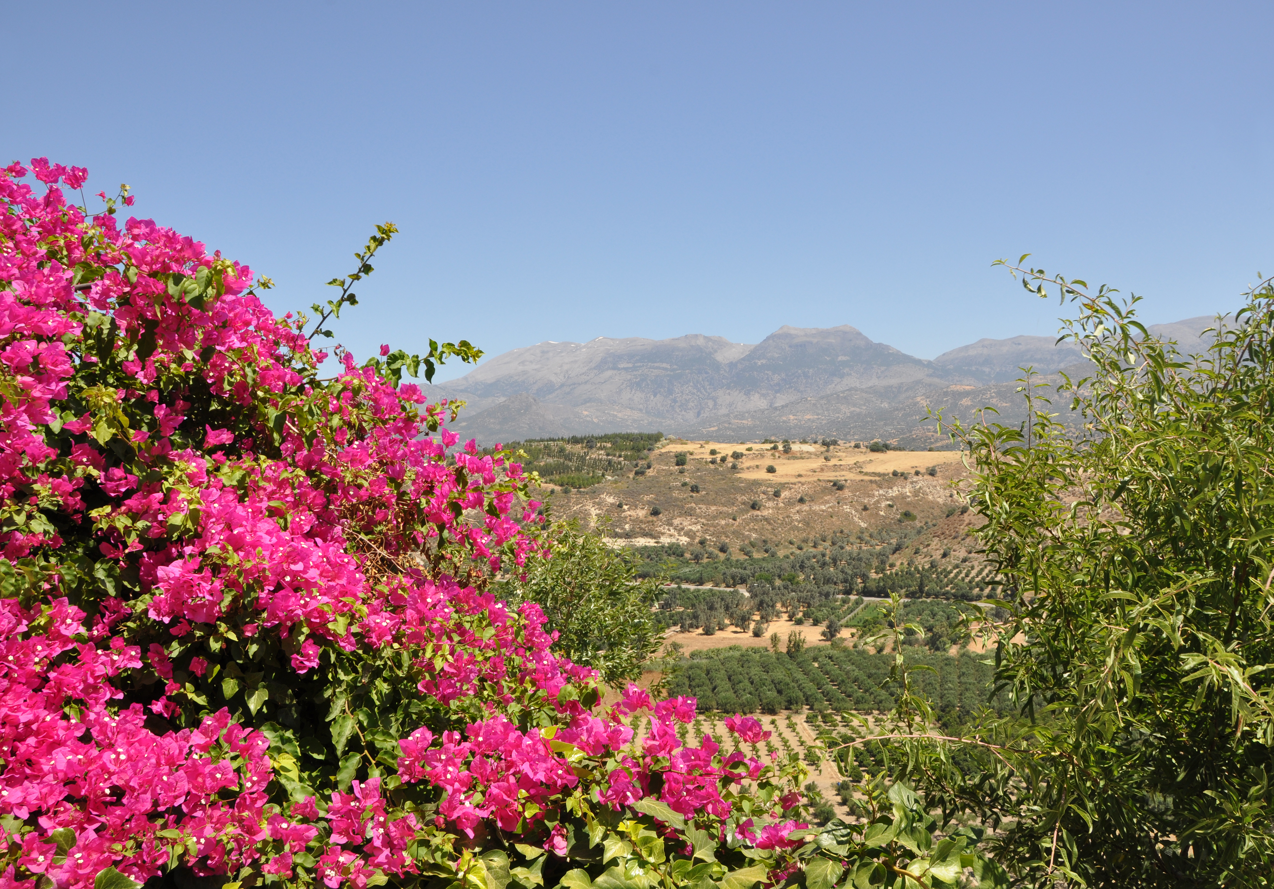 Landscape near Vori (Crete, Greece)